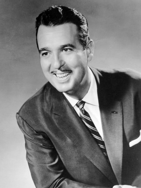 Publicity photo of Tennessee Ernie Ford from the television program The Ford Show.